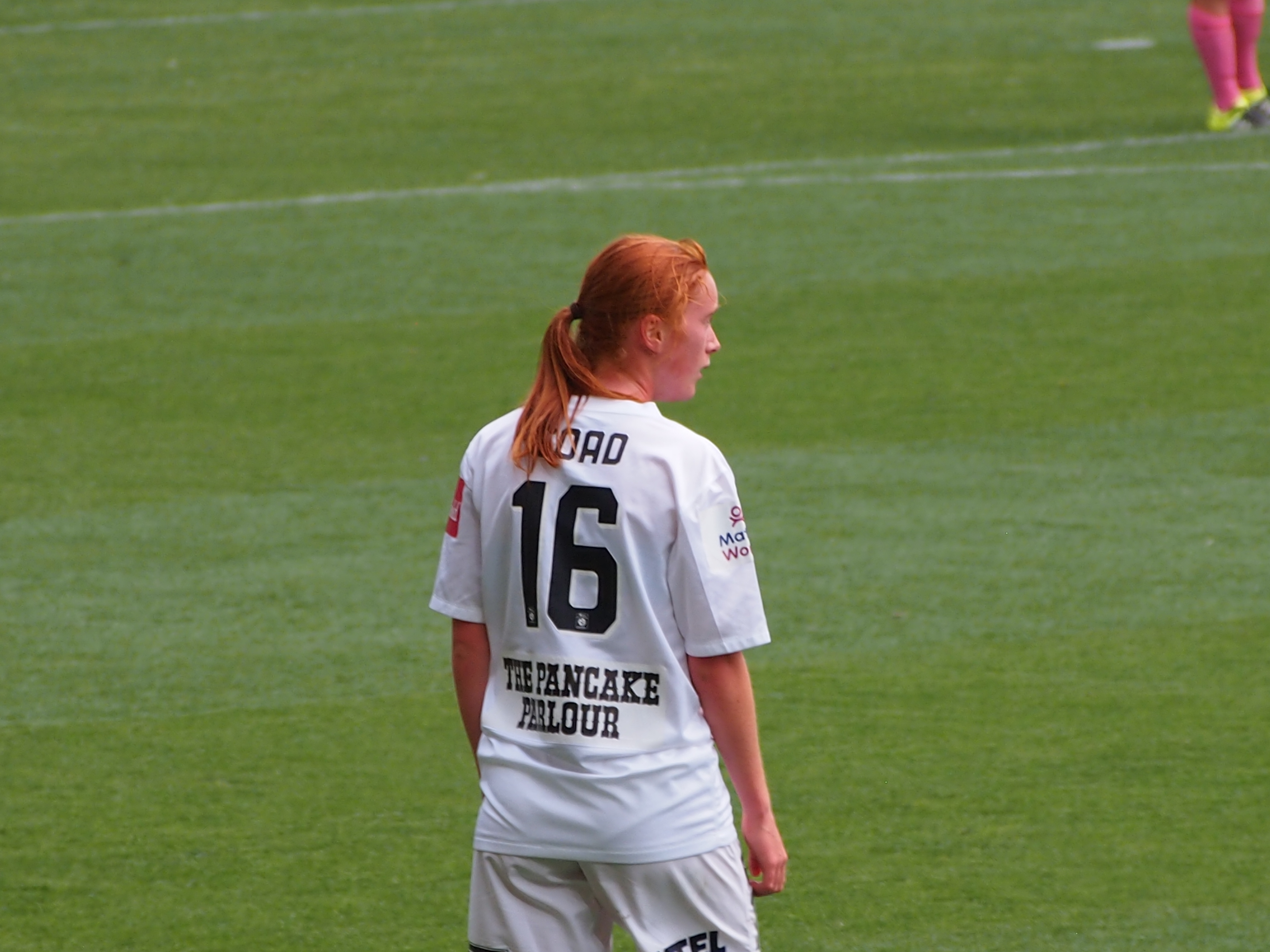 Beattie Goad playing the W-League final 2016 for Melbourne City FC